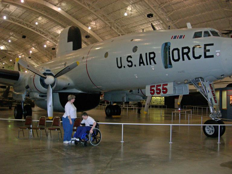 Lockheed EC-121 Warning Star at the National Museum of the United States Air Force